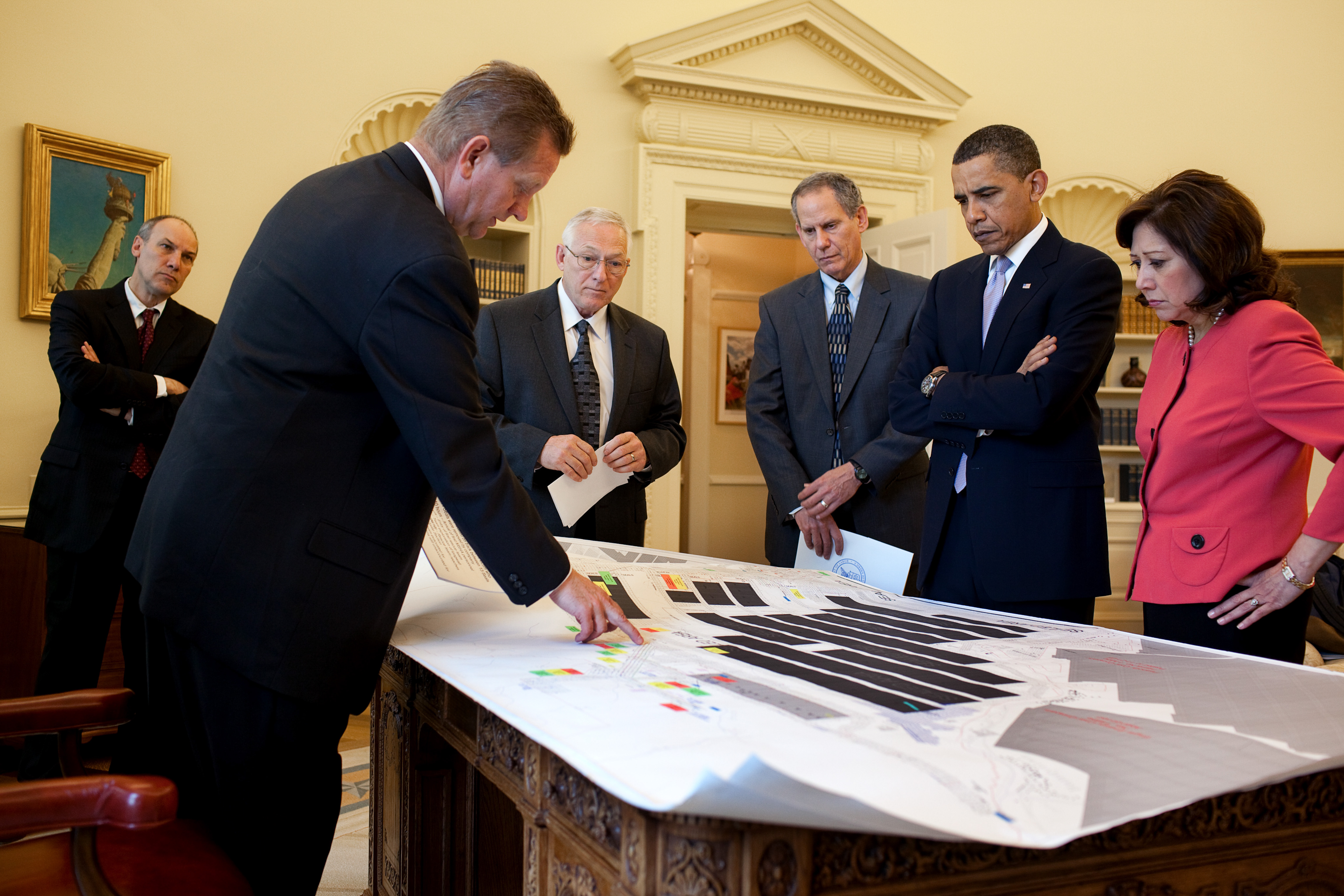 President Barack Obama looks at a map of the Upper Big Branch mine, the site of a deadly explosion on April 5, spread across his desk in the Oval Office during a meeting on mine safety with, from left, Assistant to the President for Legislative Affairs Phil Schiliro, U.S. Mine Safety and Health Administrator Kevin Stricklin, Assistant Secretary of Labor for Mine Safety and Health Joe Main, Deputy Mine Safety and Health Administrator Greg Wagner, and Labor Secretary Hilda L. Solis, April 15, 2010 (Official White House Photo by Pete Souza)